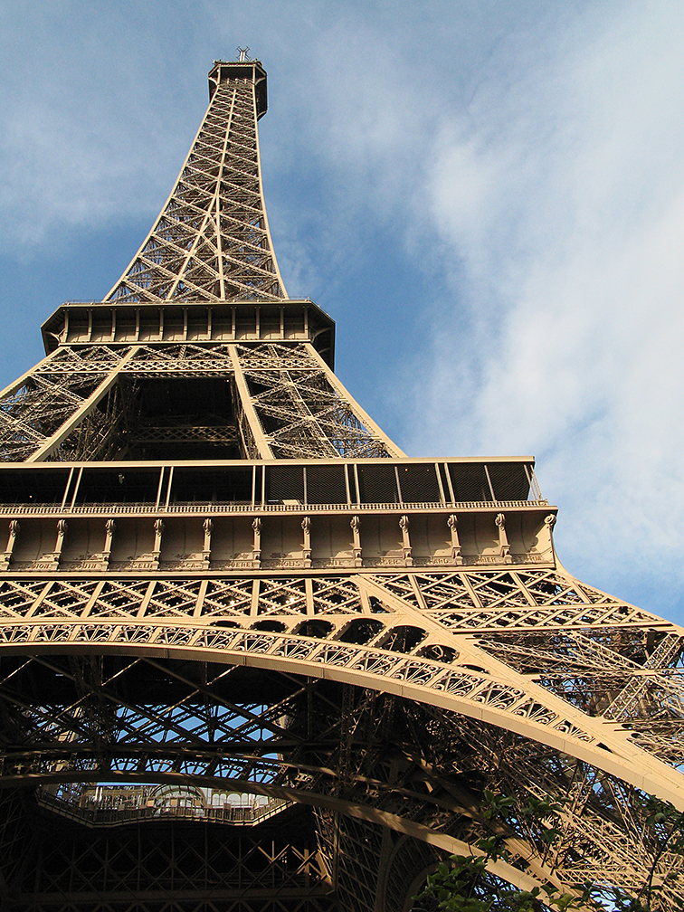 The Eiffel tower is constructed from puddle iron, a form of wrought iron.